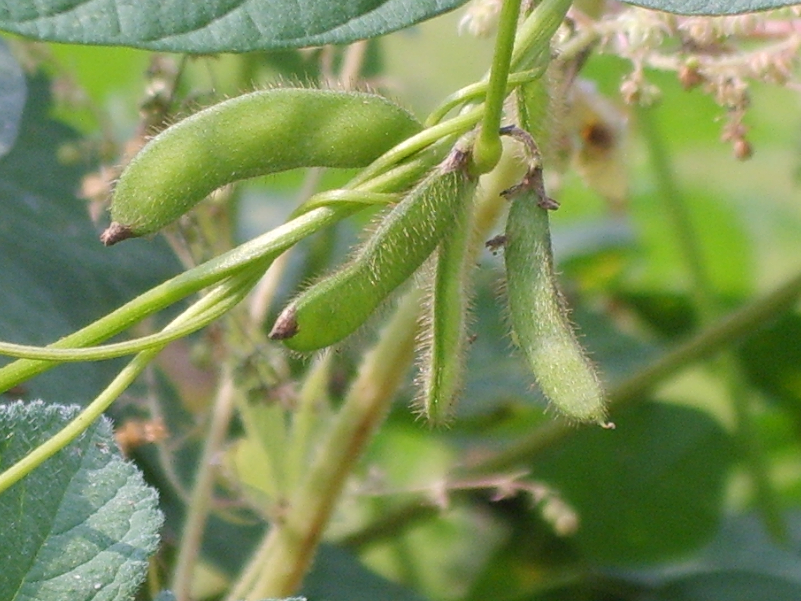 Glycine soja in Gimpo, Korea